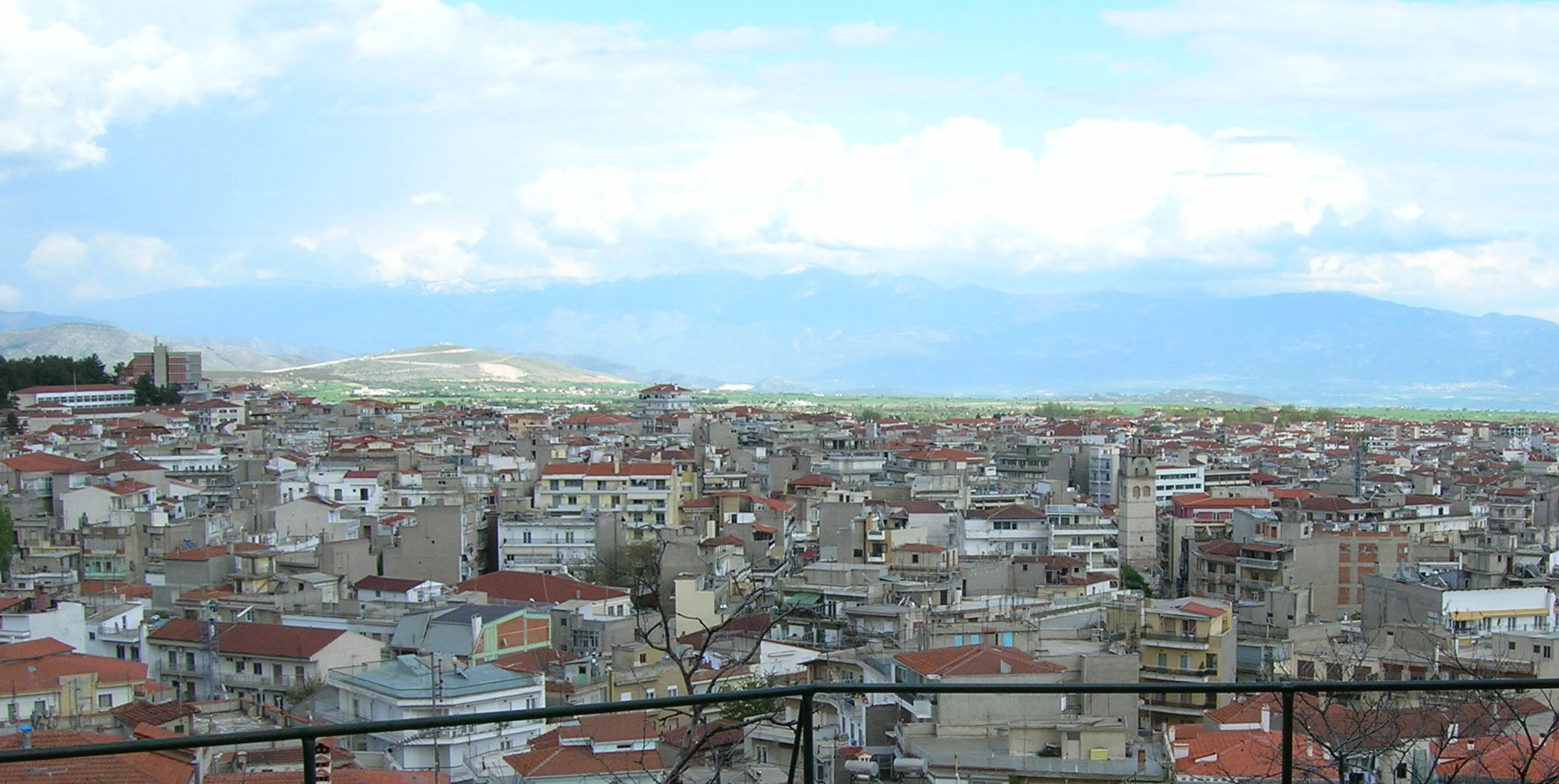 User:Makedonas is the creator of this work.